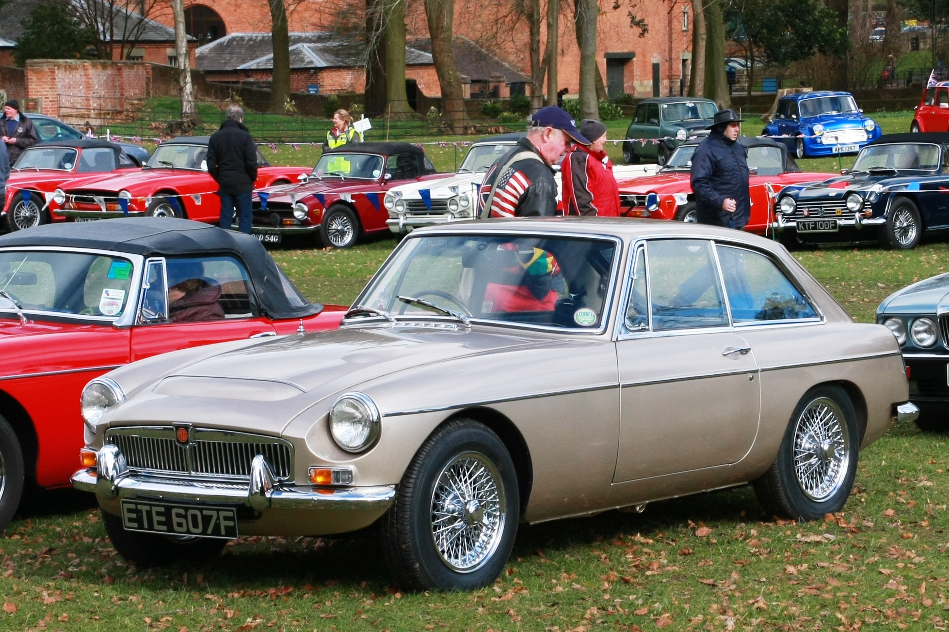 MG C GT (1968) at Weston Park (2016)